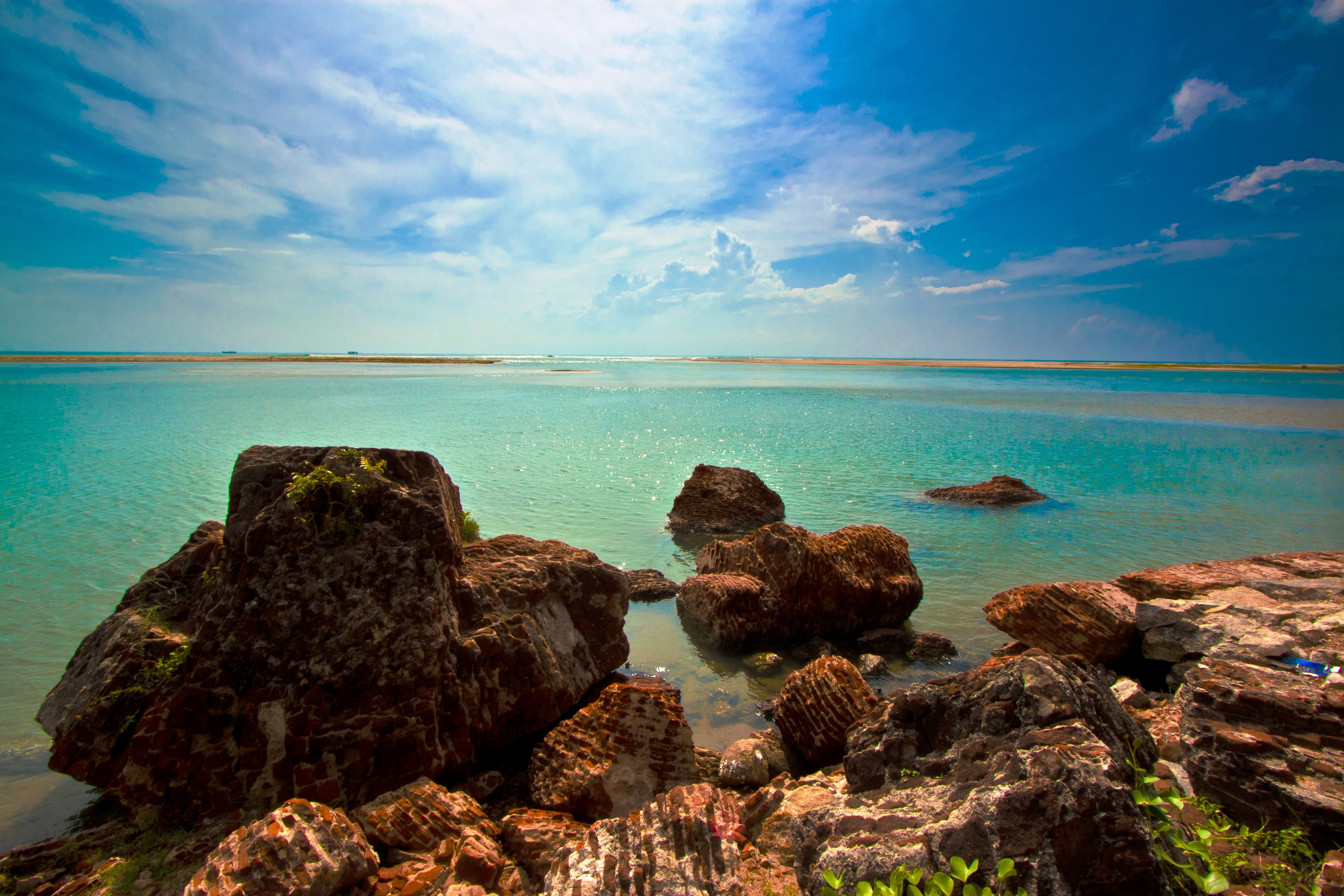 I shot this in Alampara fort ruins on the shore of East Coast near to pondichery. This fort was built in 17 century and now in a ruined state.